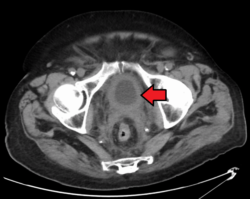 Bladder wall thickening due to cancer